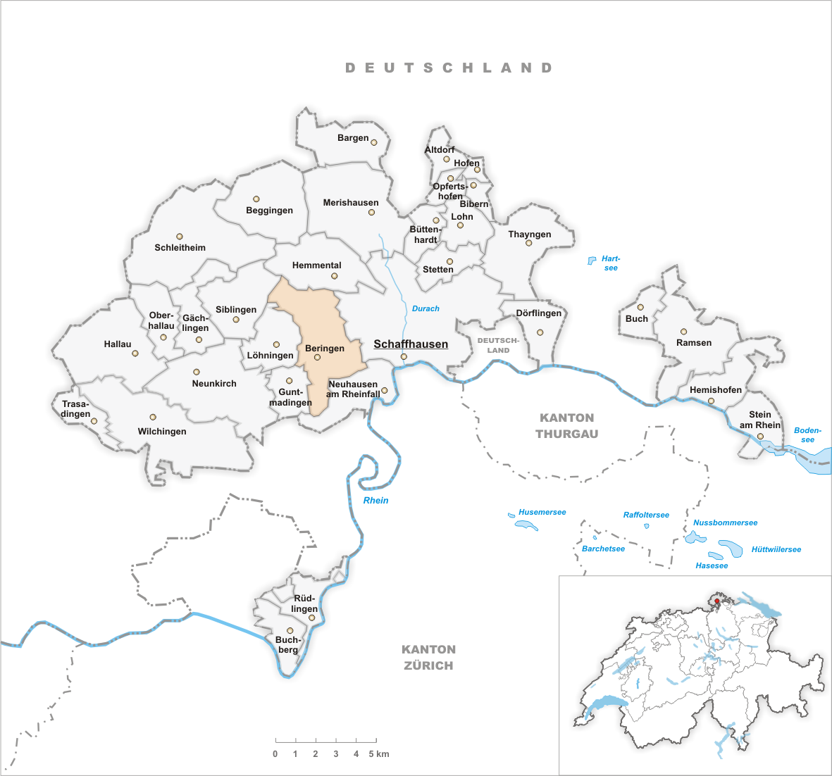 Municipality Beringen